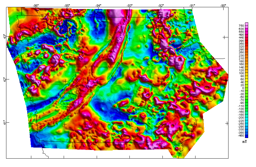 Iowa Composite Magnetic Anomaly Map (NE illumination) at simulated flight altitude of 305 m (1,000 ft) above ground